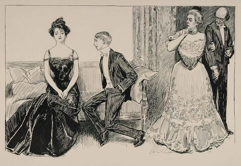 The Crush